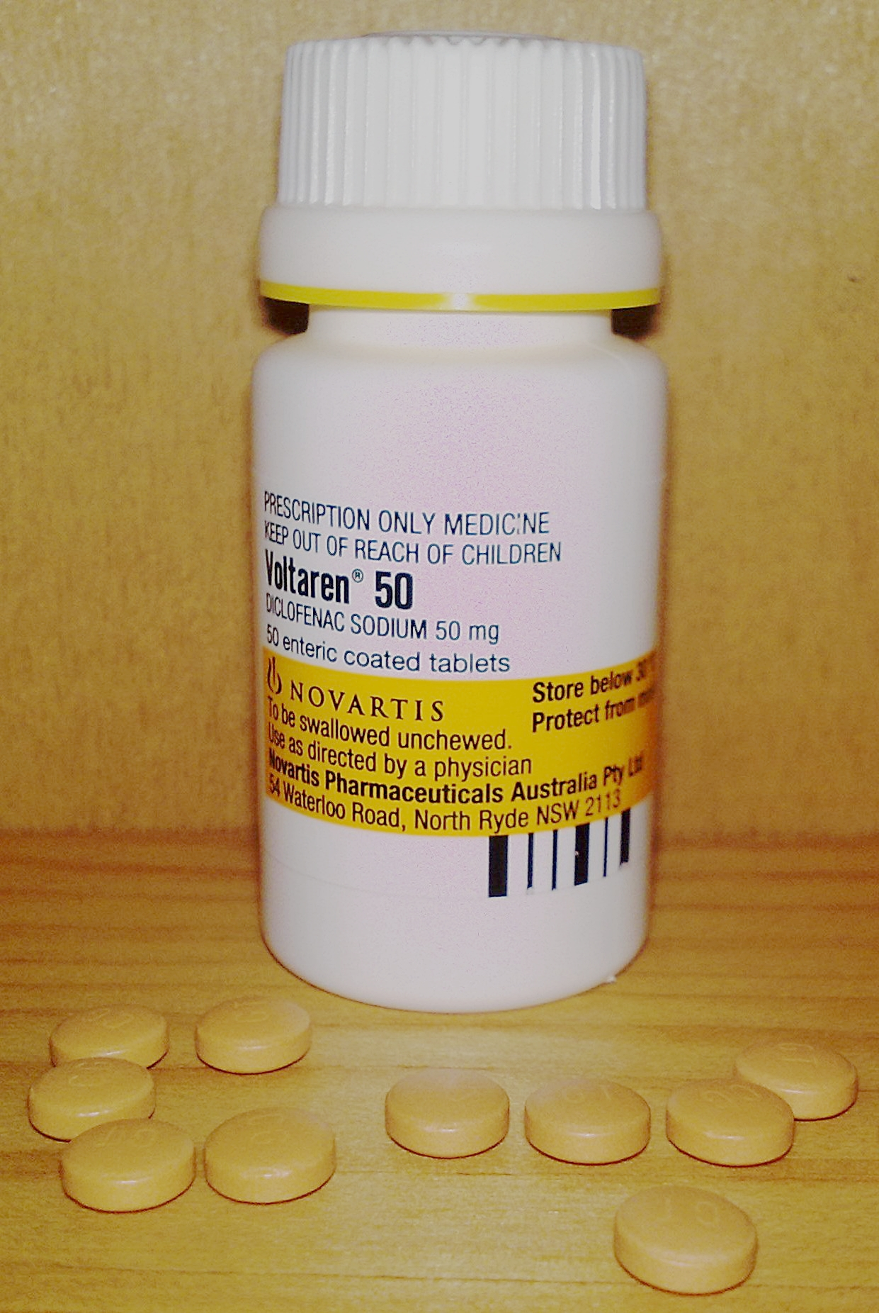 Voltaren